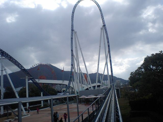 Zaturn rollercoaster